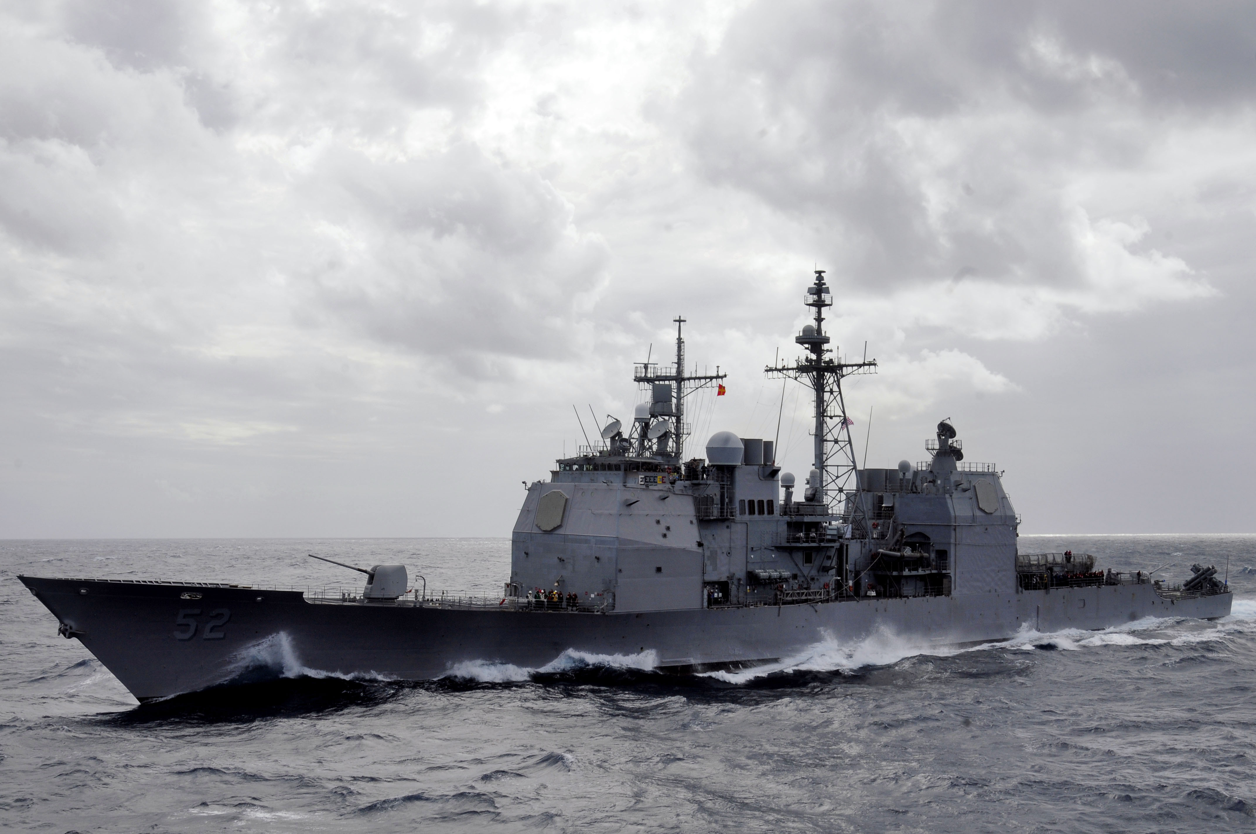 ATLANTIC OCEAN (March 4, 2010) The Ticonderoga-class guided-missile cruiser USS Bunker Hill (CG 52) transits in the Atlantic Ocean. The ship is underway supporting Southern Seas 2010.